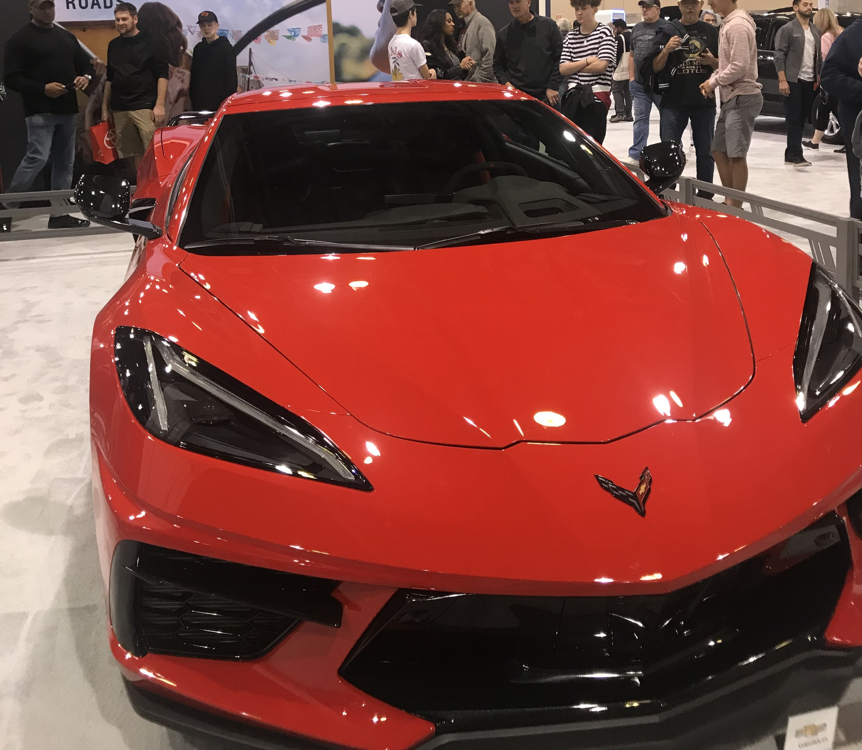 A 2020 Chevrolet Corvette C8 at the Phoenix Auto Show in Phoenix, Arizona.